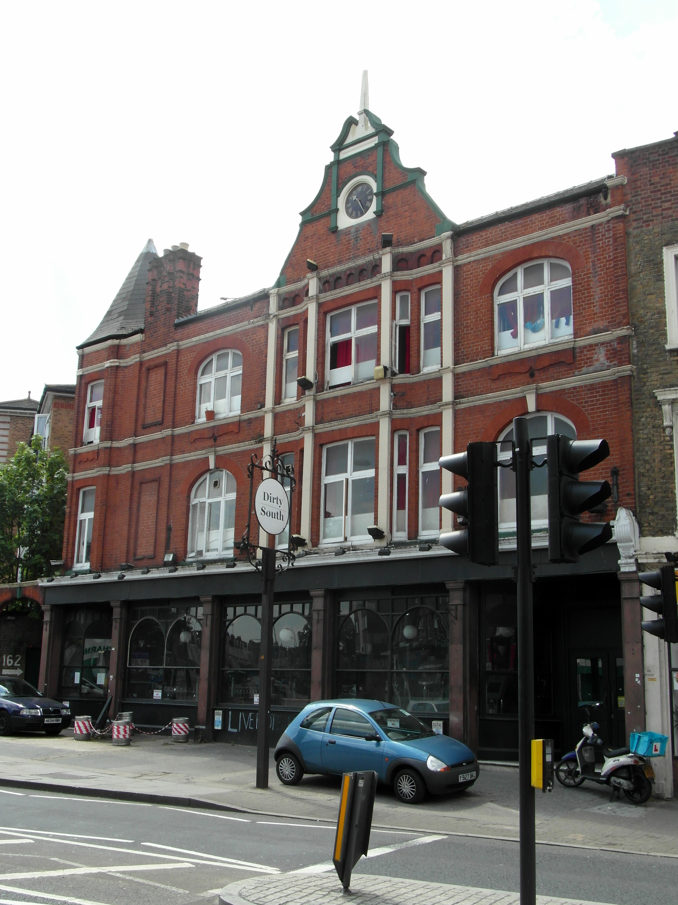 Closed pub, 162 Lee High Road, Lewisham